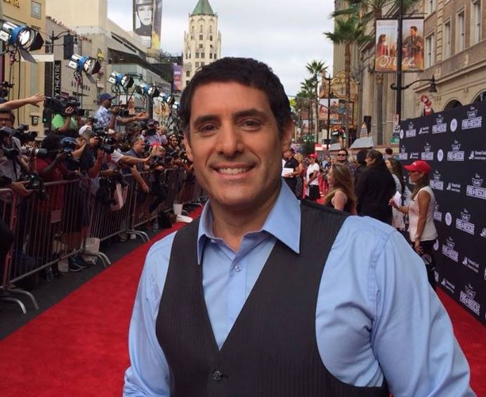 Template:OTRS pending/LANGCODE